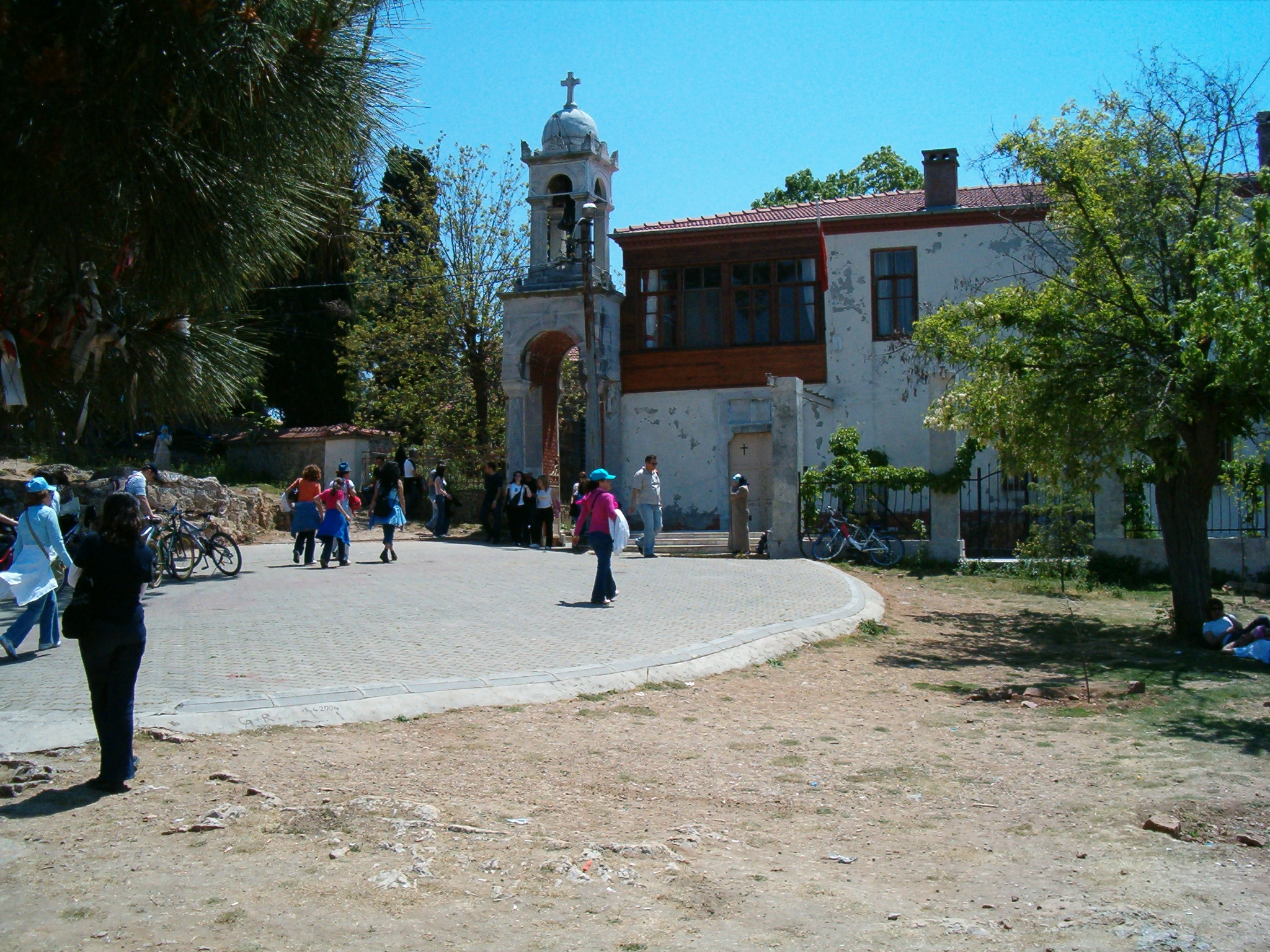 Aya Yorgi koudounas , orthodox Cristian Monastery in Büyükada